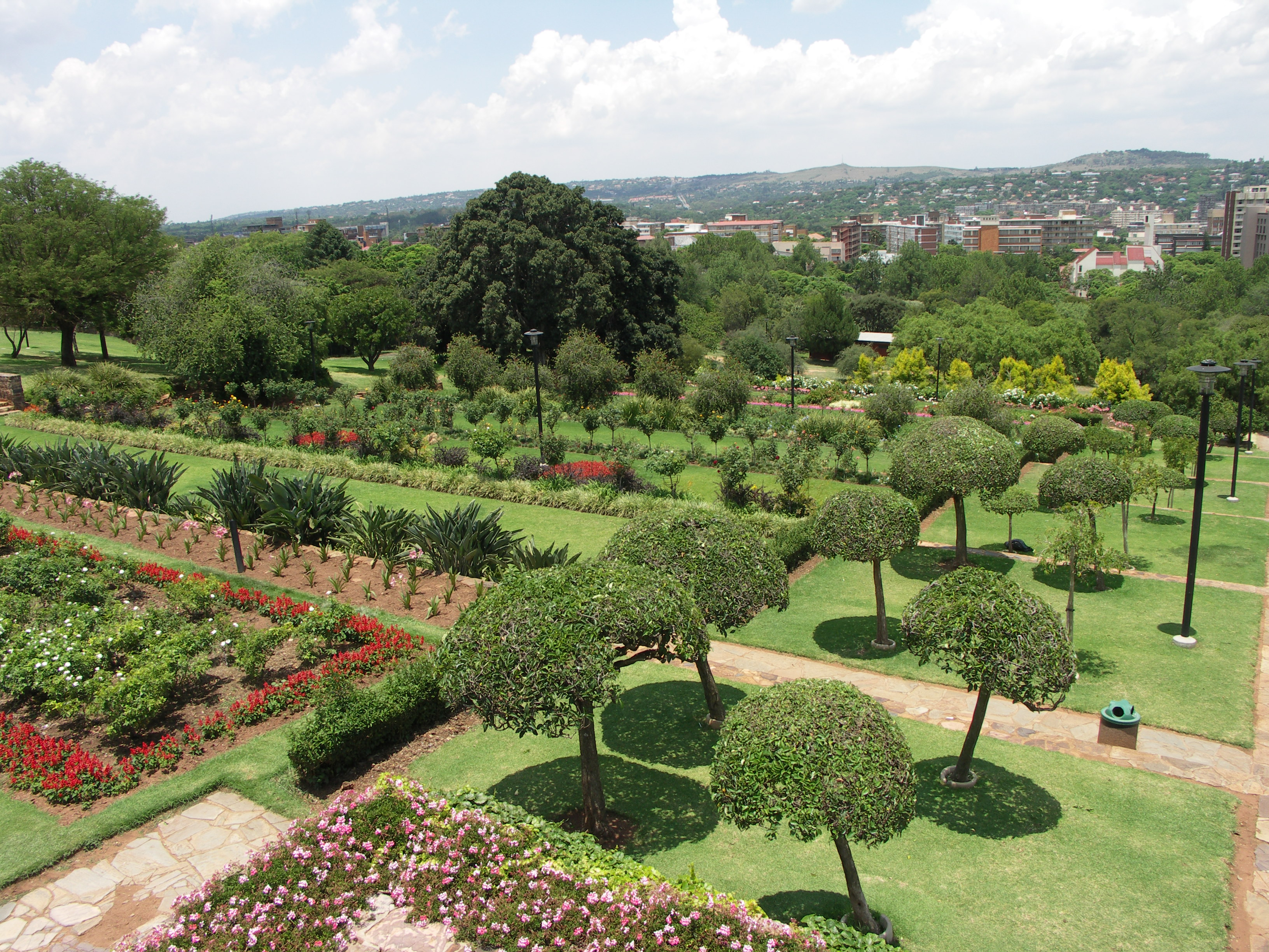 Terraced gardens at the Union Buildings, Pretoria, South Africa